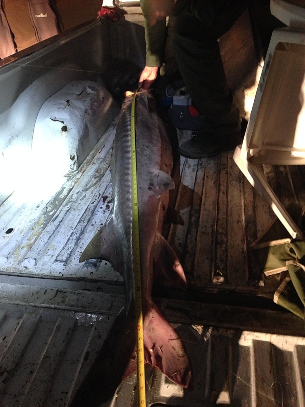 Oversized white sturgeon found in the back of a poacher's pickup truck, March 2015. The fish was safely returned to the water by wardens.